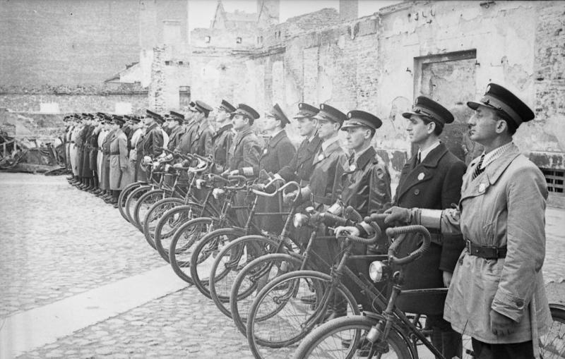 Warsaw Ghetto: Bicycle company of Jewish Order Service[1].